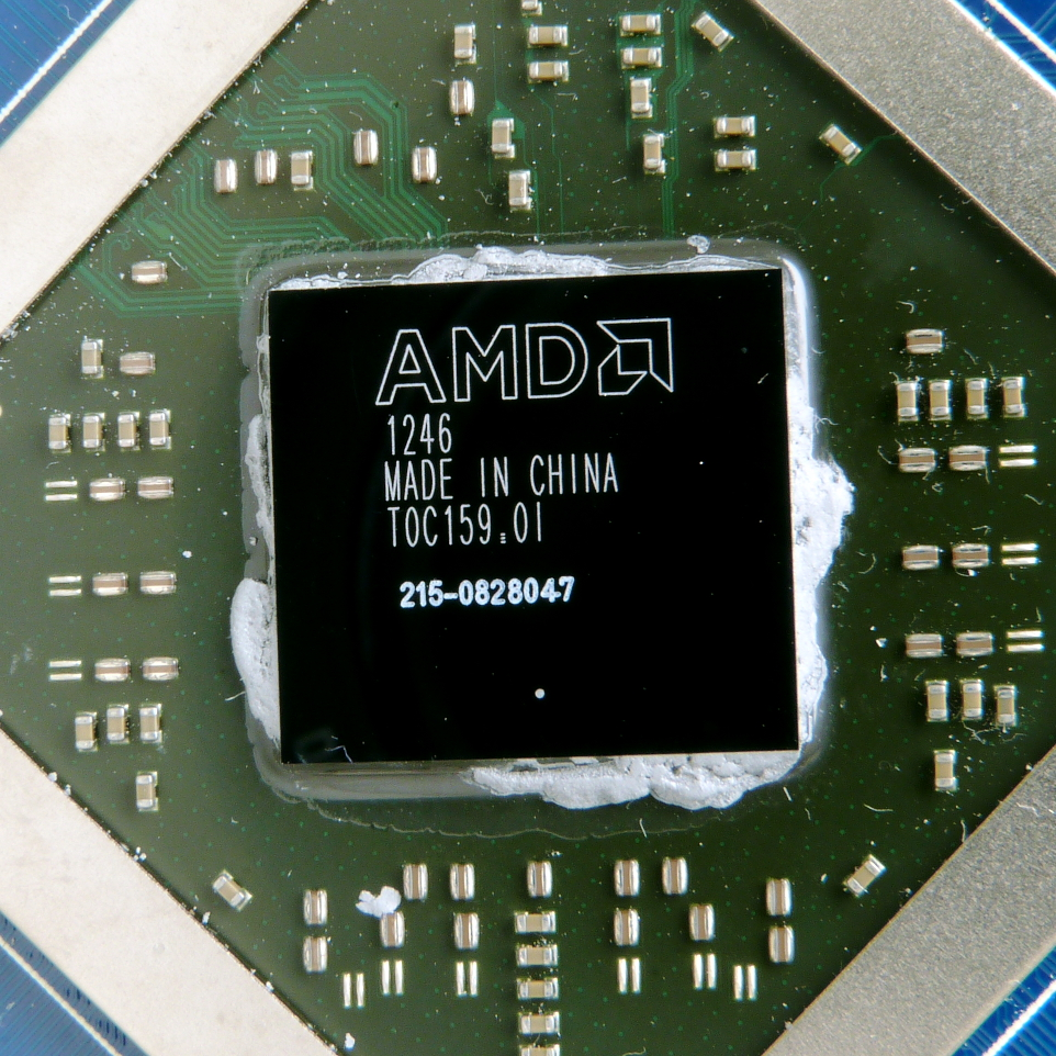 A close-up image of the die and package of an AMD Radeon HD7870 graphics card.